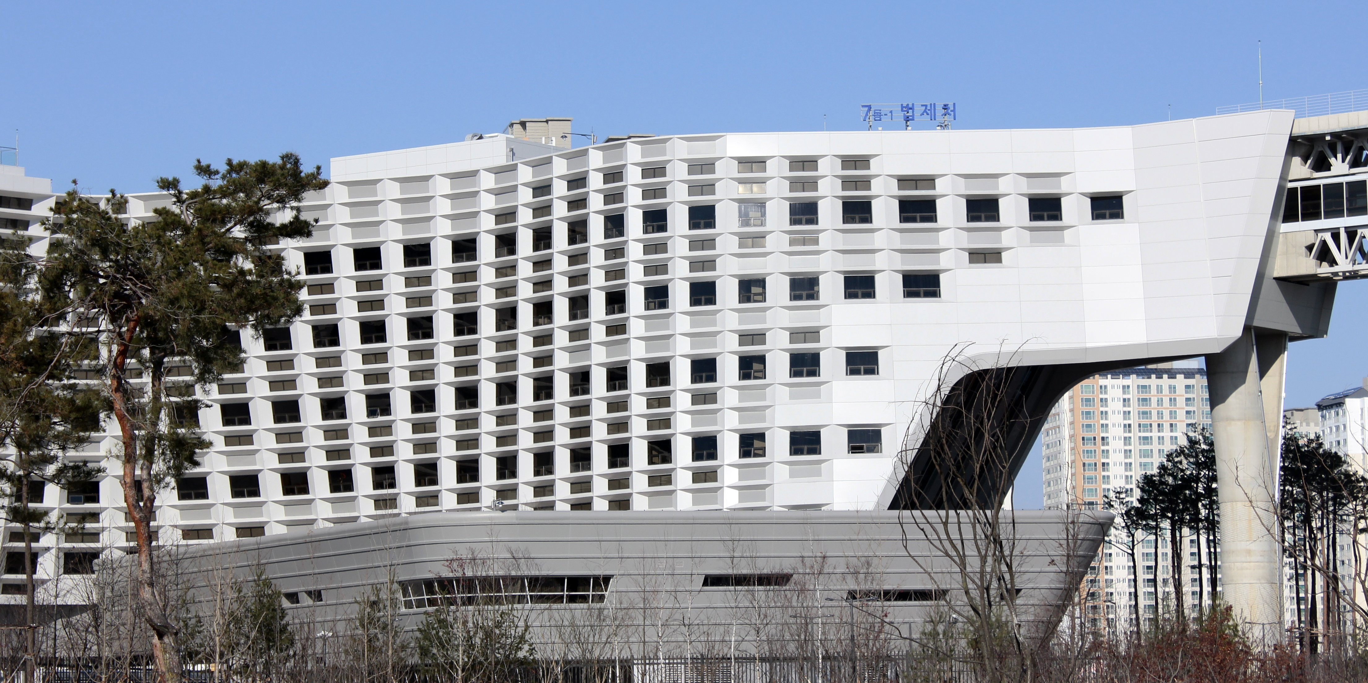 Ministry of Government Legislation @Government Complex Sejong #7-1